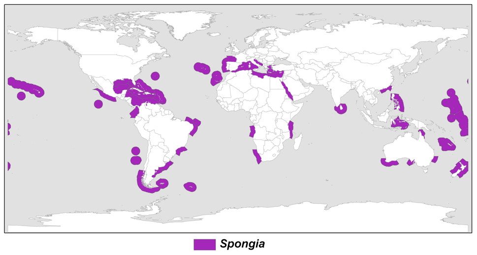 All known species of the genus Spongia recorded were entered in the relevant Marine Ecoregions of the World, yielding the circumglobal warmer water distribution of this genus. This type of distribution is representative for a large number of sponge genera.